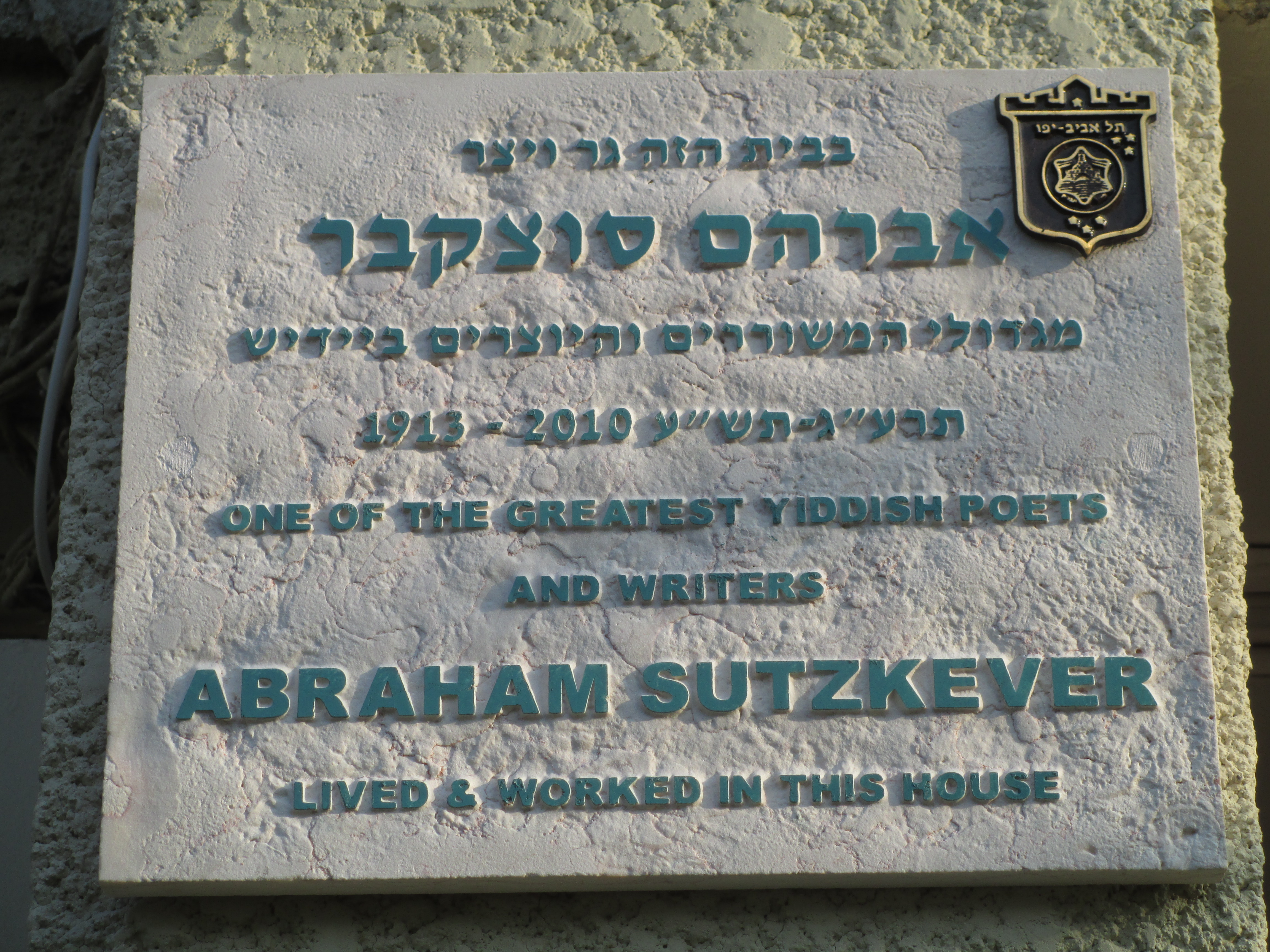 memorial plaque to the yiddish poet & writer abraham sutzkever in tel aviv